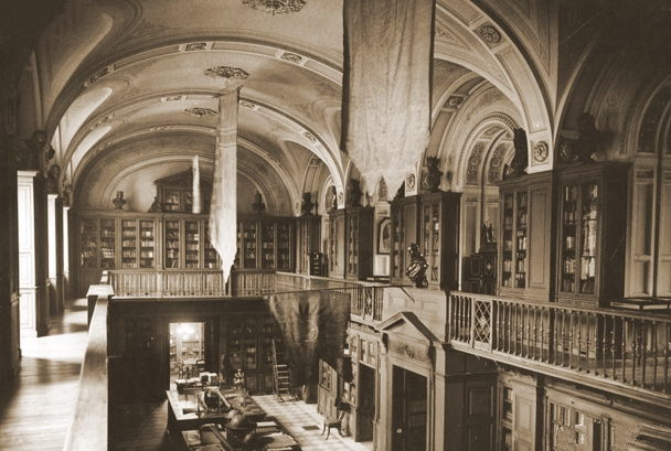 Interior of the Zamoyski Foundation Library in Warsaw. Main hall. Burned down in September, 1939 as a result of severe aerial bombardment by the Germans (incendiary bombing). The surviving collection was later deliberately burned by the Germans in September 1944.